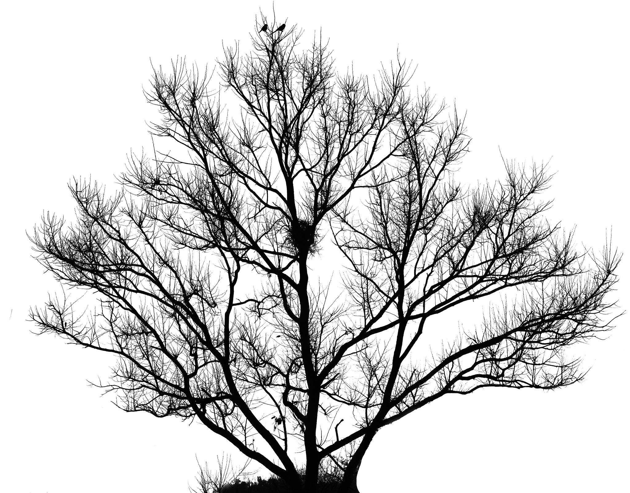 500px provided description: Backlighting of a tree with the nest and birds at top [#bird ,#contrast ,#tree ,#abstract ,#branches ,#nest ,#backlight ,#bird nest]